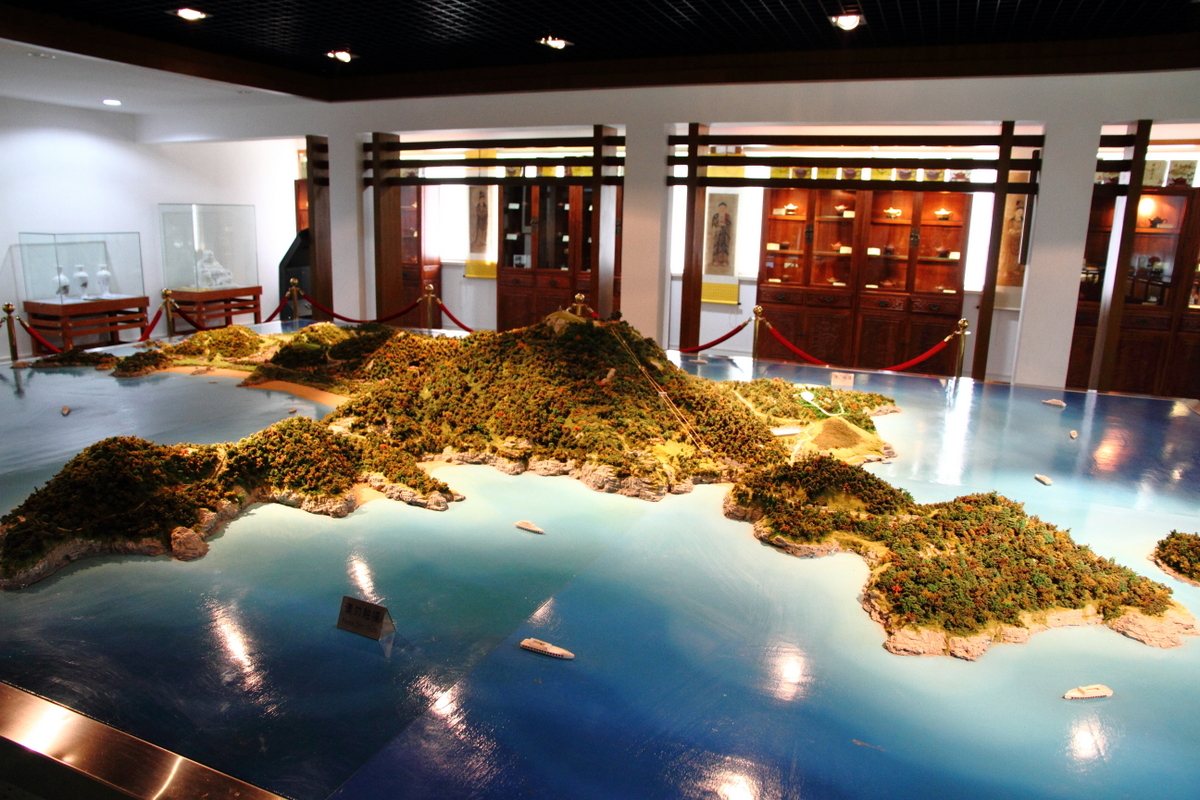 model of Putuo Shan island